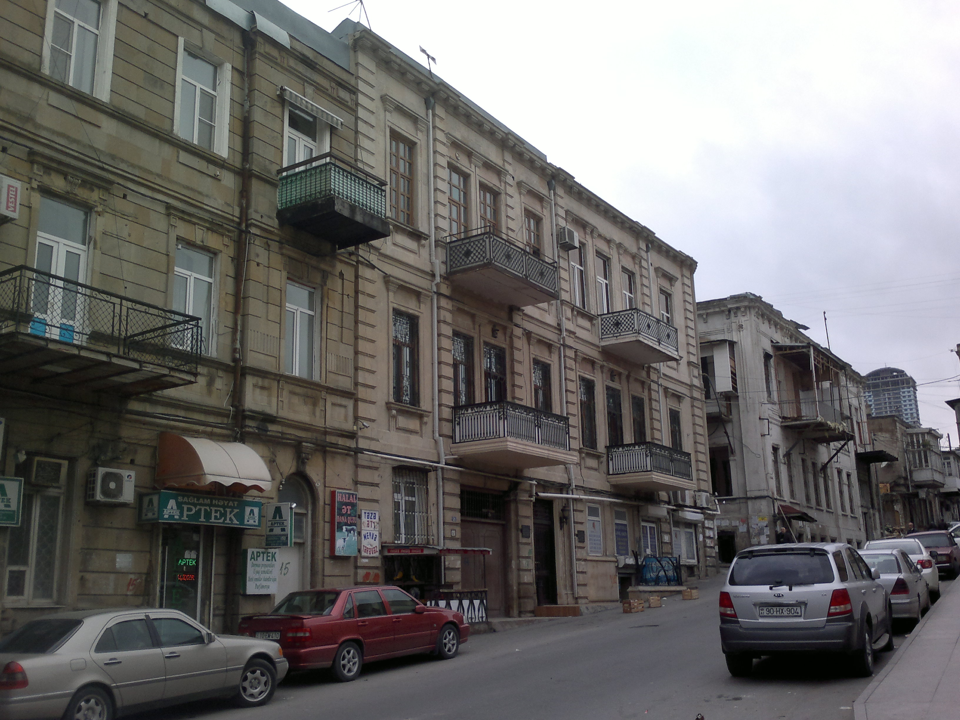 Building of 126 Mirza Agha Aliyev Street